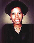 Gail A. Cobb (b. 1950 - d. 1974), the first female American police officer to be killed in the line of duty.